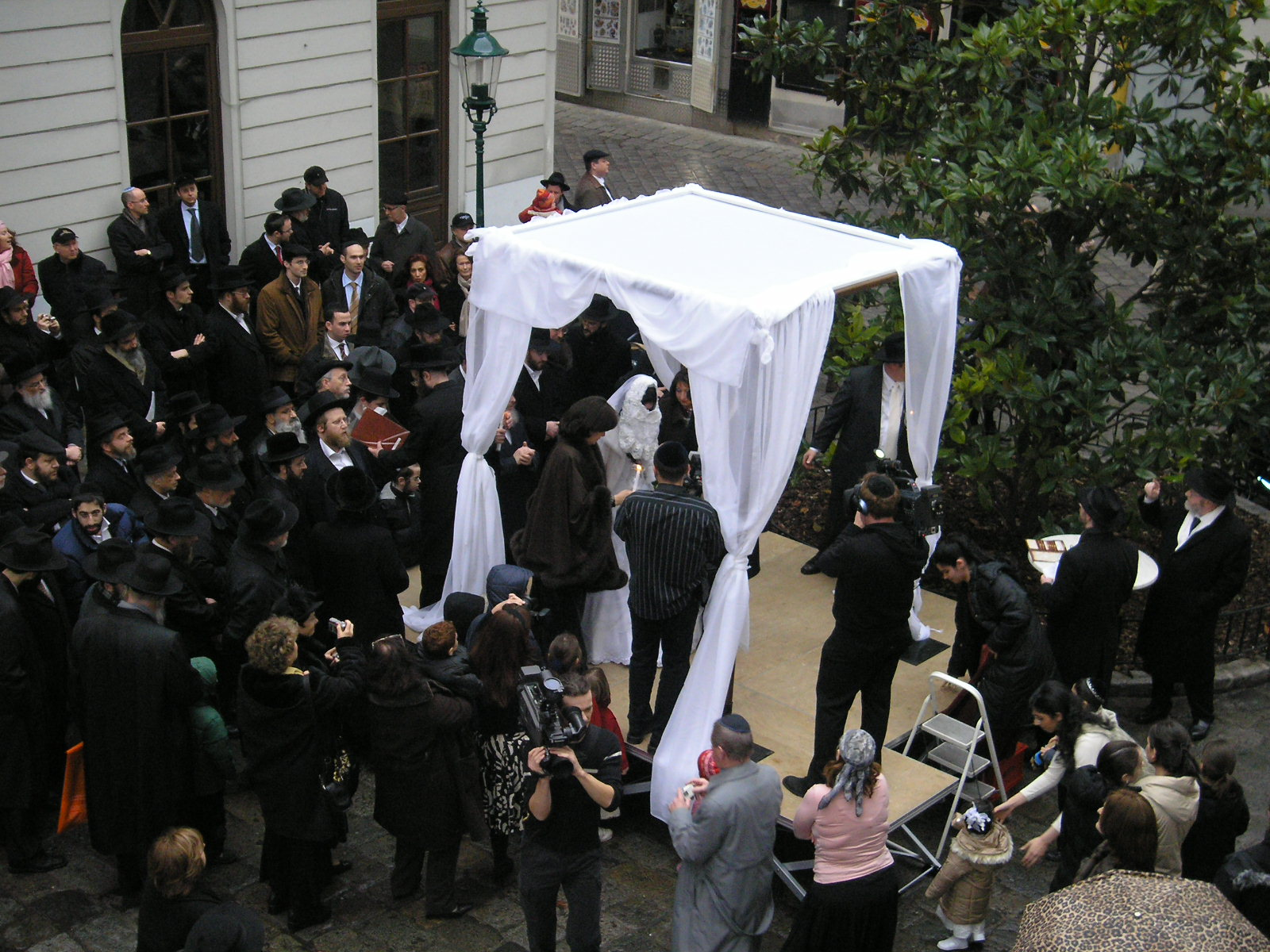 Orthodox Jewish wedding with chupah in Vienna's first district, close to Judengasse.